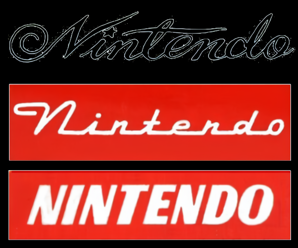 A collection of three Nintendo logos used from 1960 to 1965.